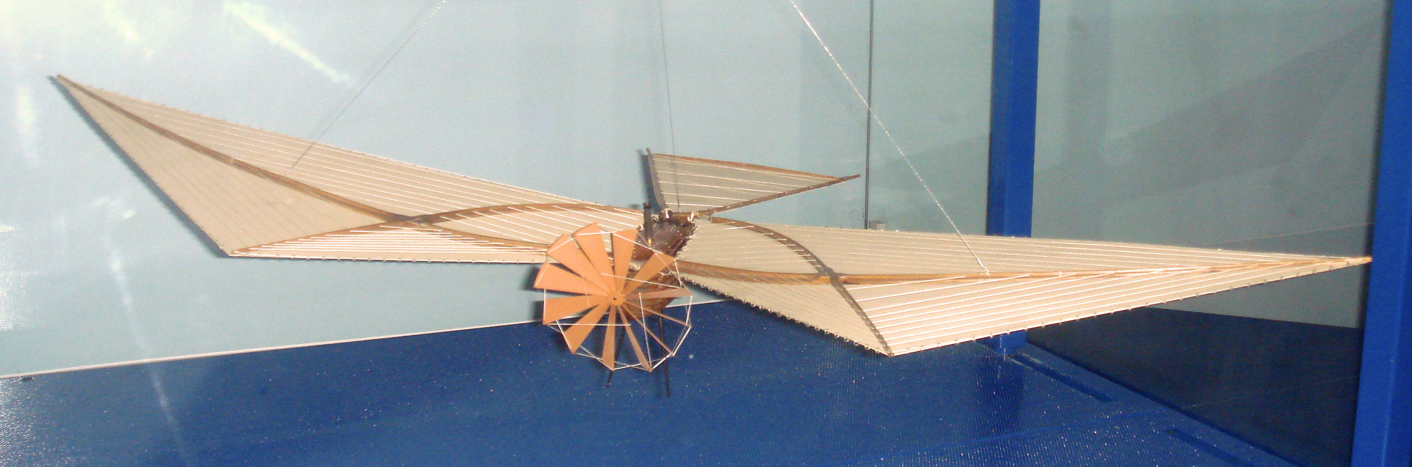 Felix_de_la_Croix_du_Temple_airplane_mockup